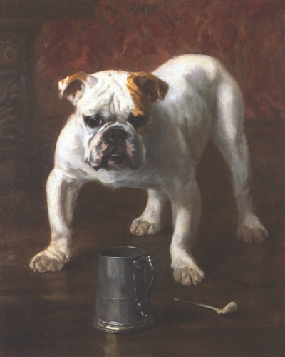 Portrait of the Bulldog